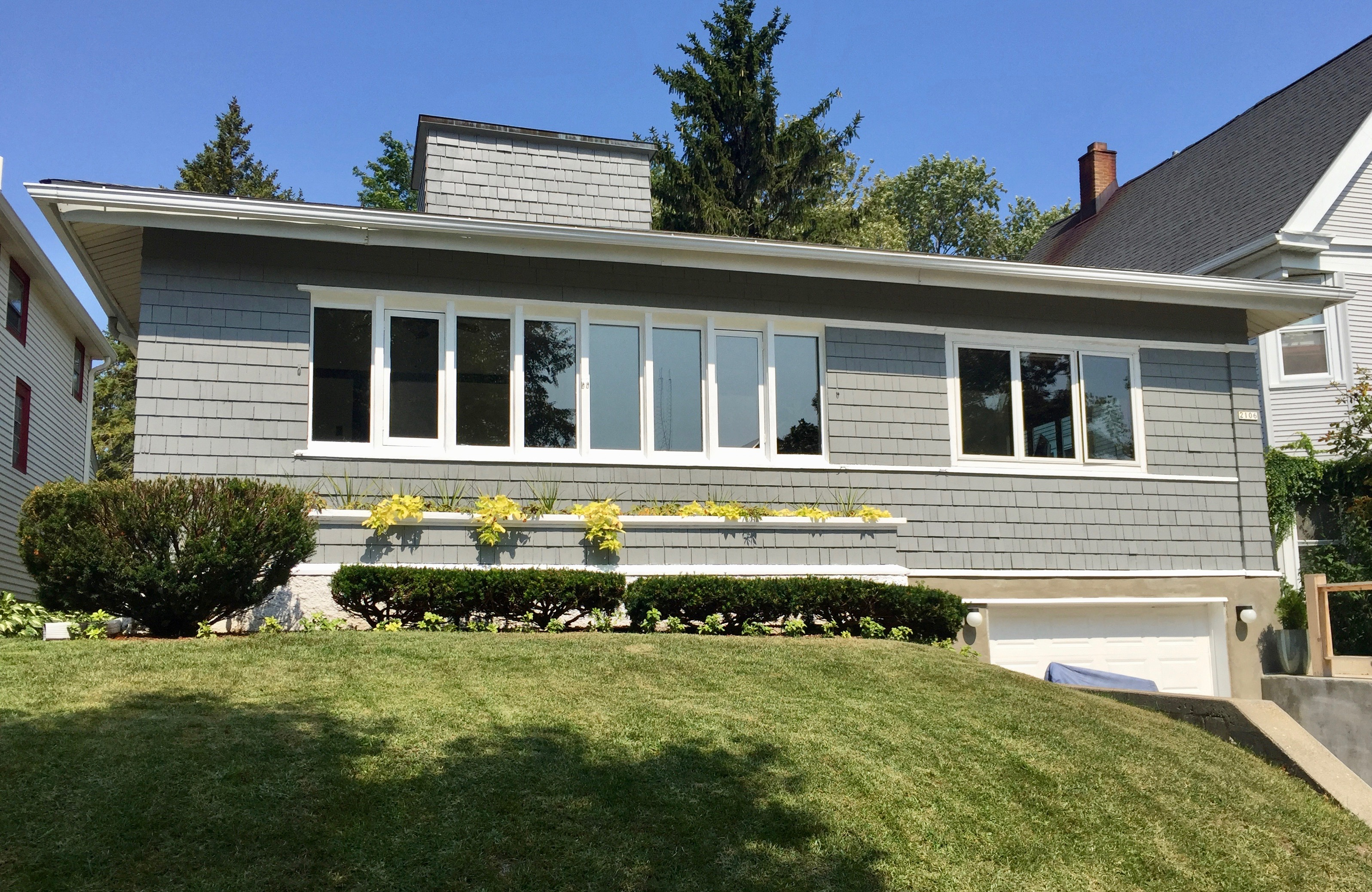 Elizabeth Murphy House - an American System-Built Home, Model A2013, by Frank Lloyd Wright